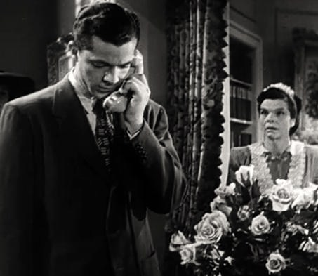 Dana Andrews and Dorothy Adams in Laura - trailer (cropped screenshot)